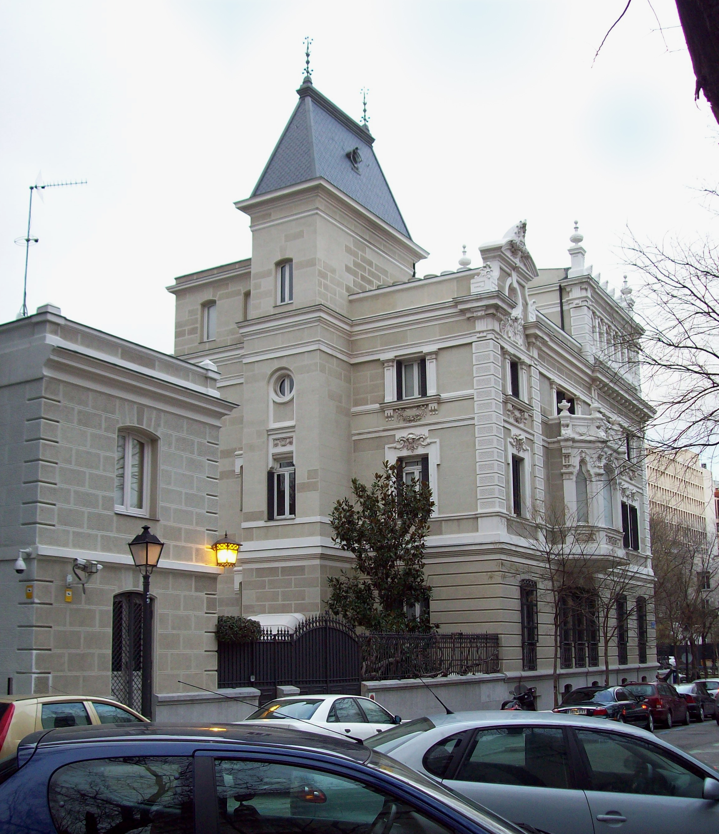 View, from the south-west angle (Calle de Rafael Calvo, street), of Palacete de Eduardo Adcoch, a building at 37 Paseo de la Castellana (an avenue) in Chamberí district in Madrid (Spain).